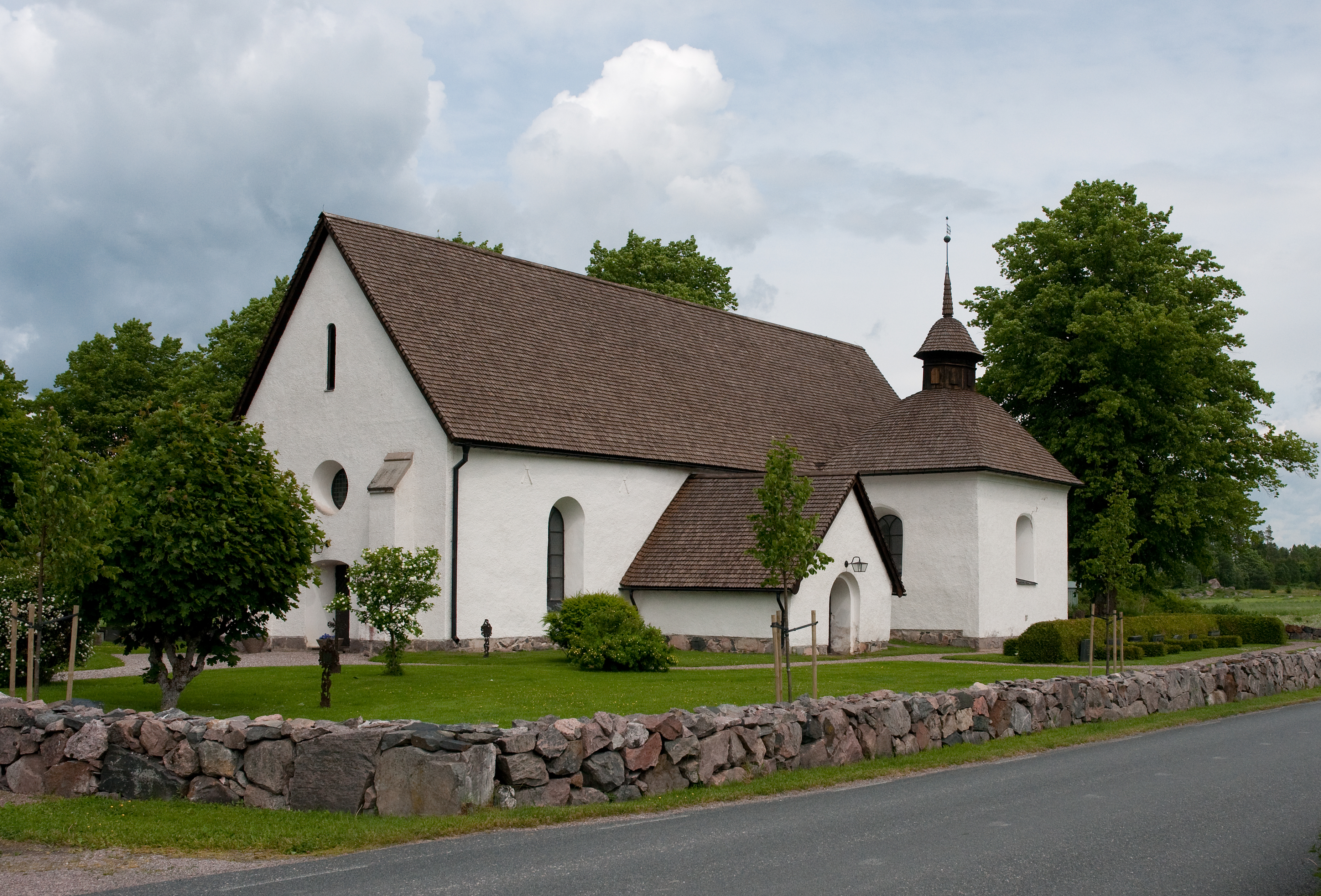 Lista Church